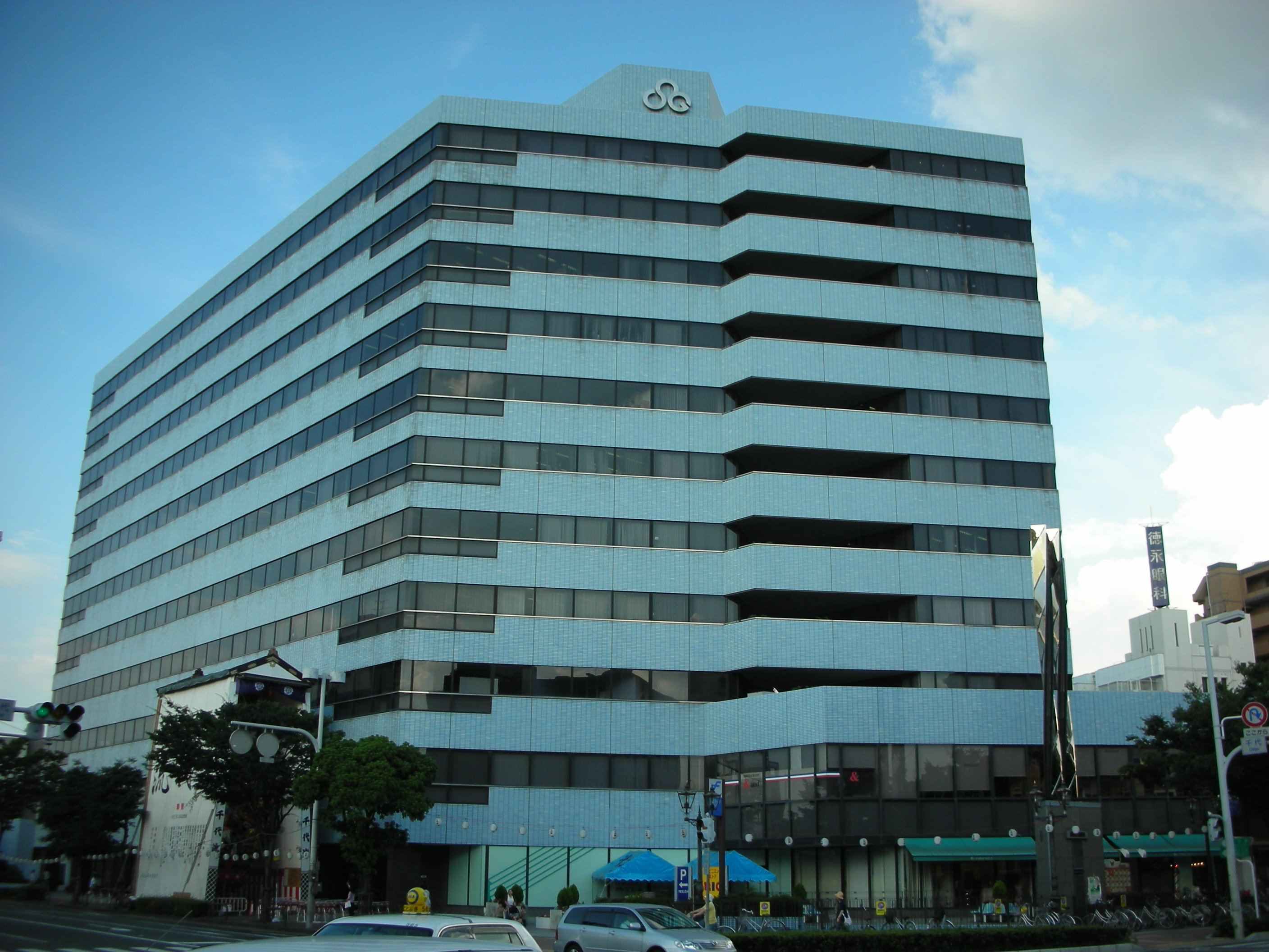 Saibu Gas Headquarter building, Hakata-ku, Fukuoka, Japan